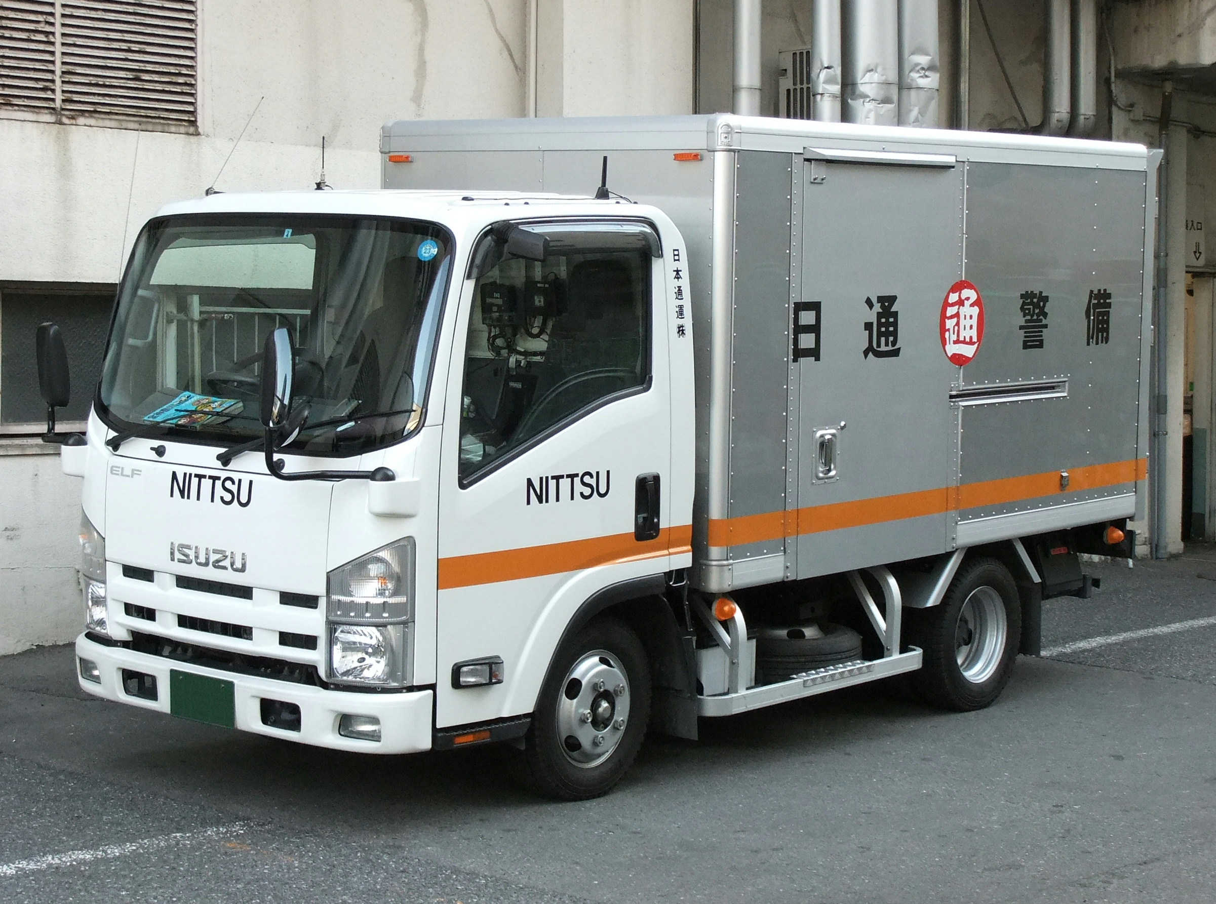 ISUZU, ELF, Grade SG, （It is called N-series or REWARD excluding a Japanese market.）, Nippon Express